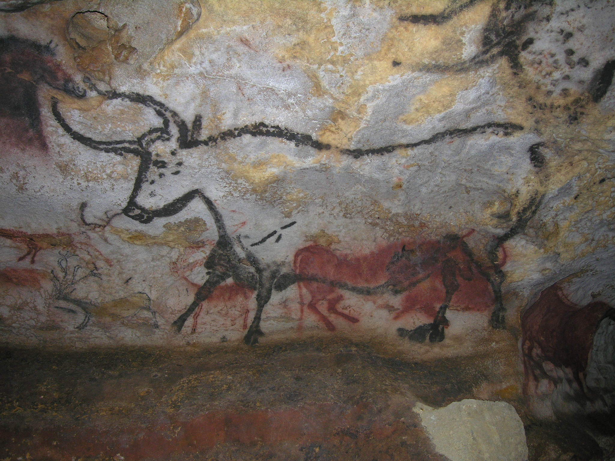 Lascaux cave. Prehistoric Sites and Decorated Caves of the Vézère Valley (France)